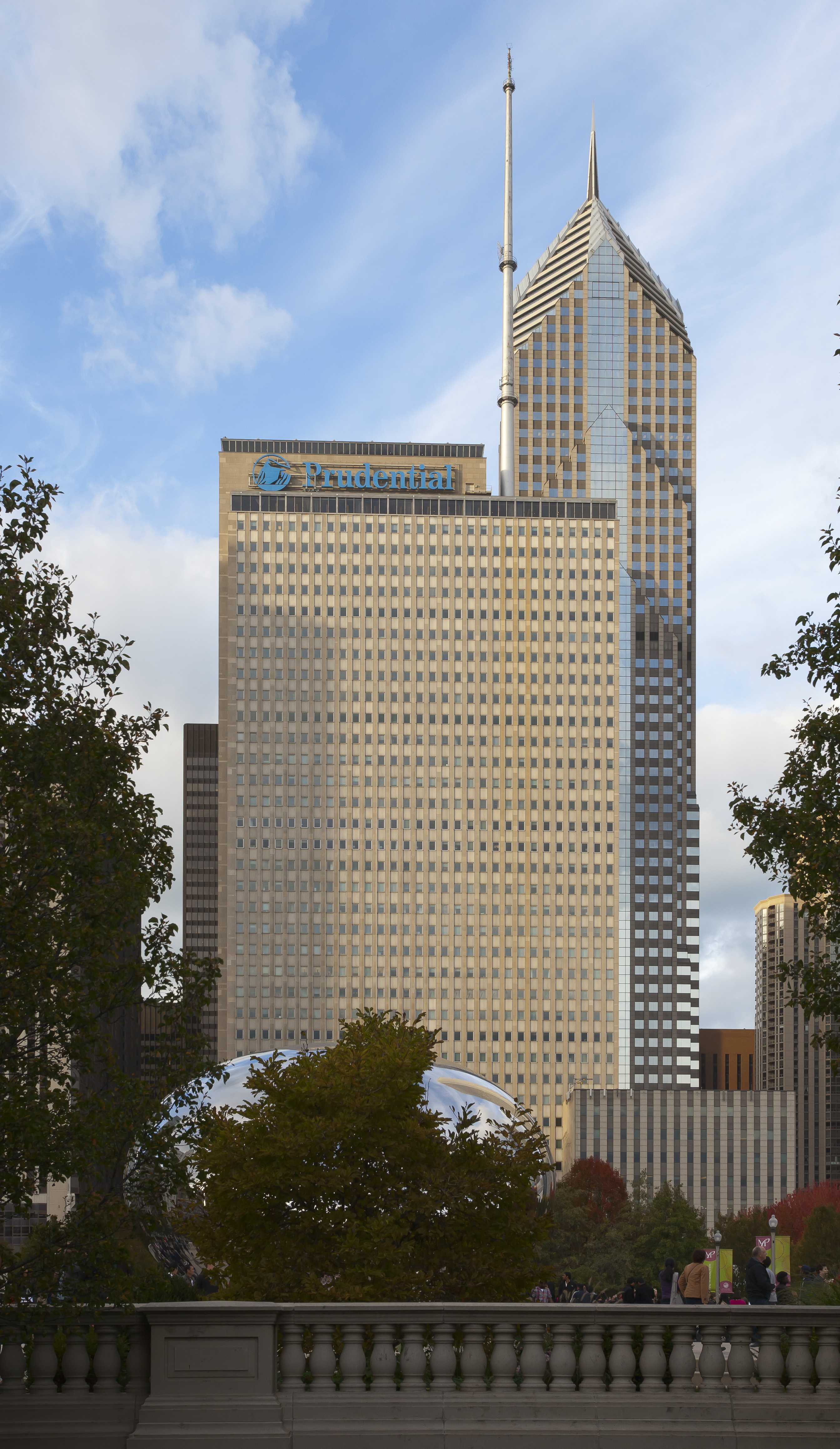 Prudential Plaza, Chicago, Illinois, USA